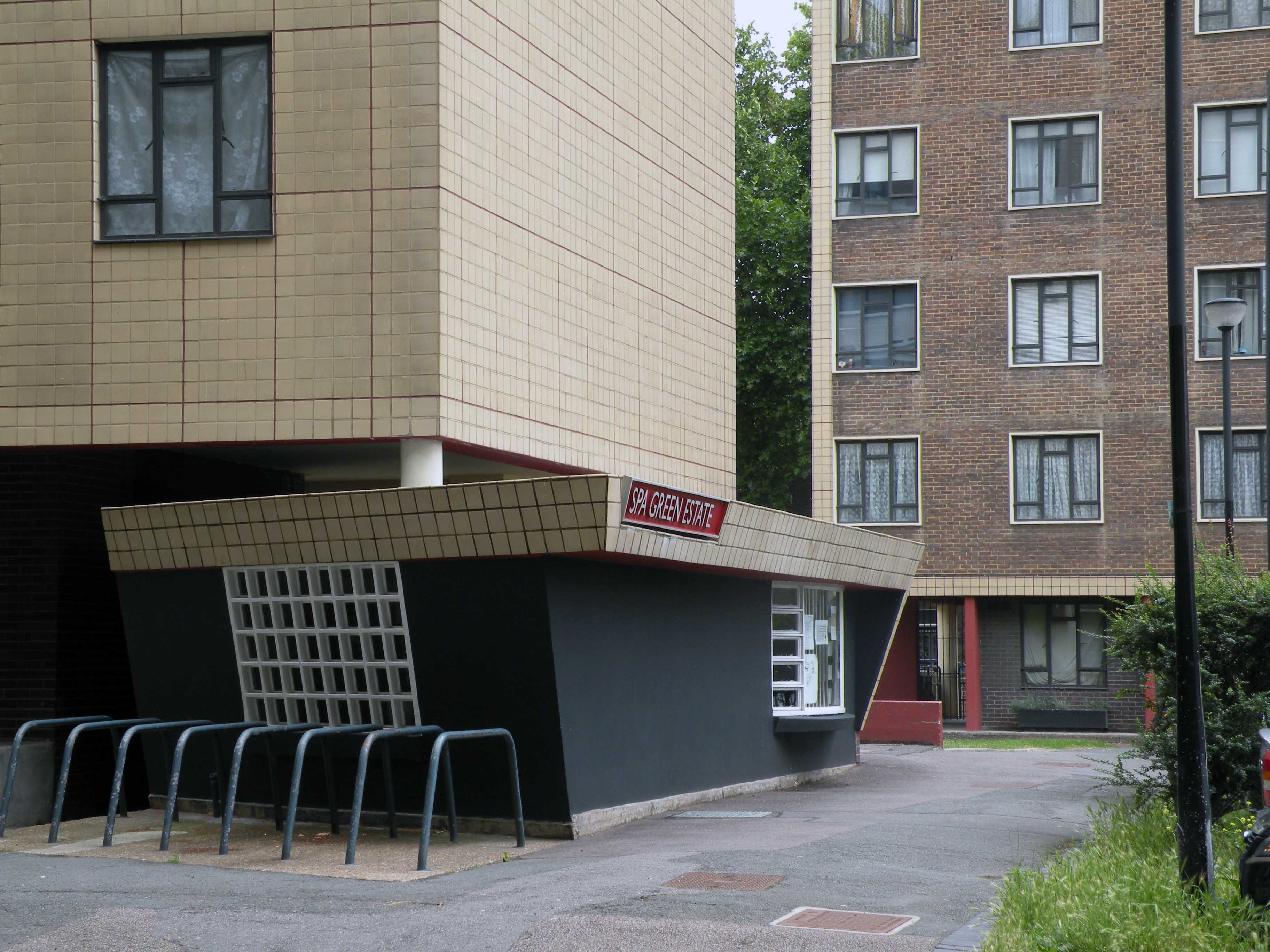 projecting meeting room, originally part of the caretaker's flat